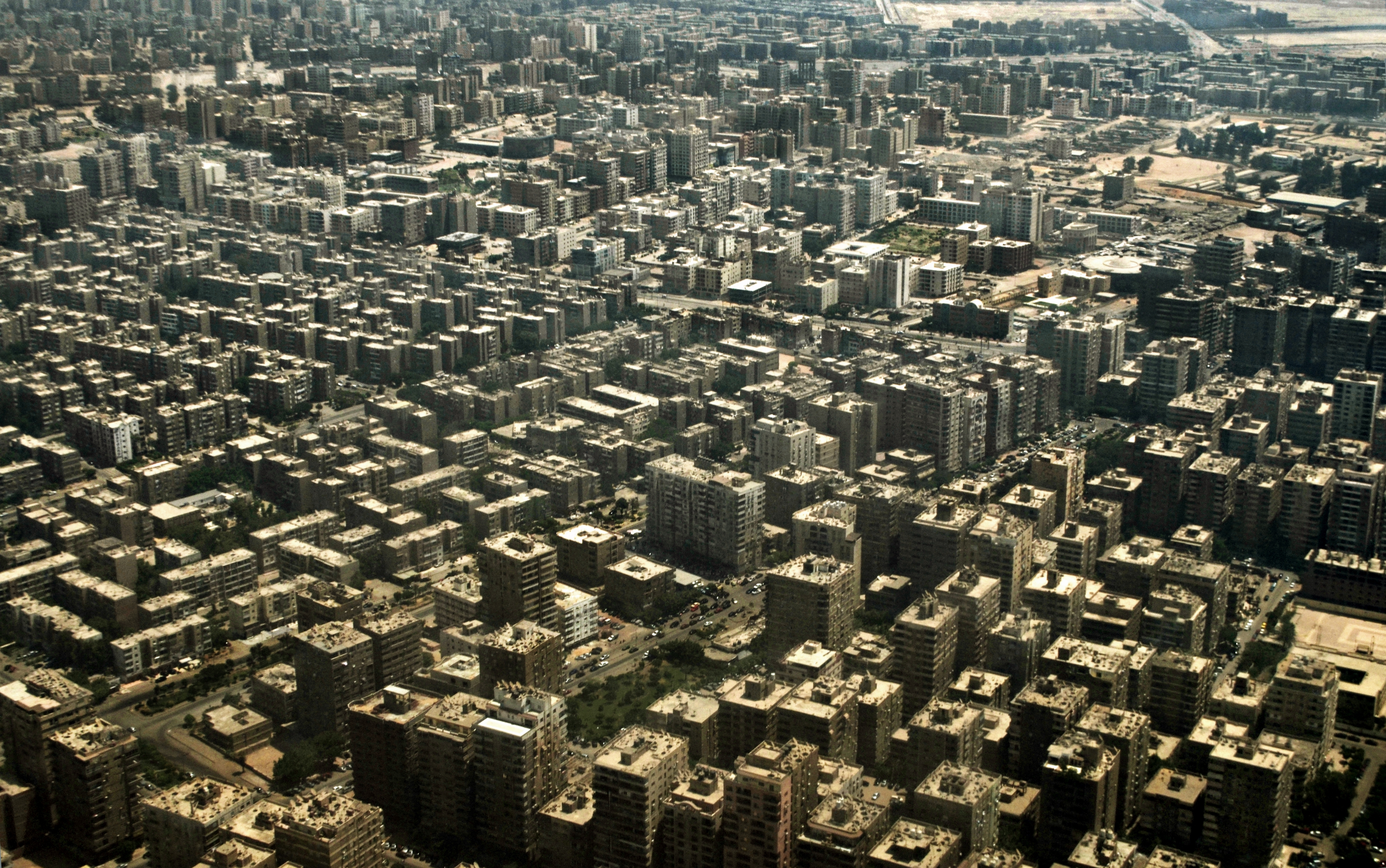 Nasr City from the plane, Cairo, Egypt.